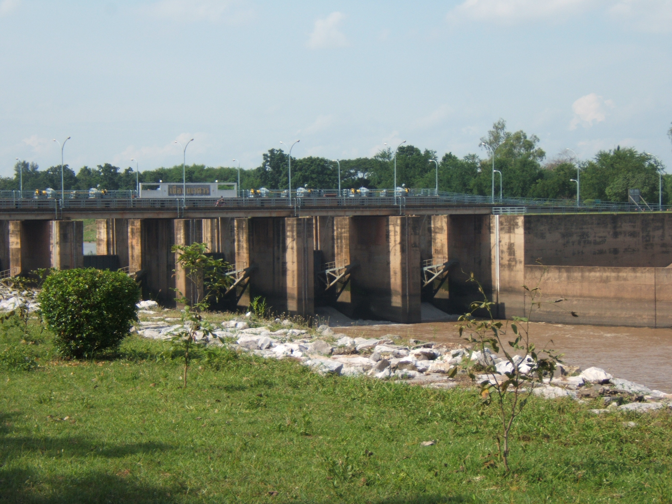 Naresuan Dam (Phitsanulok)